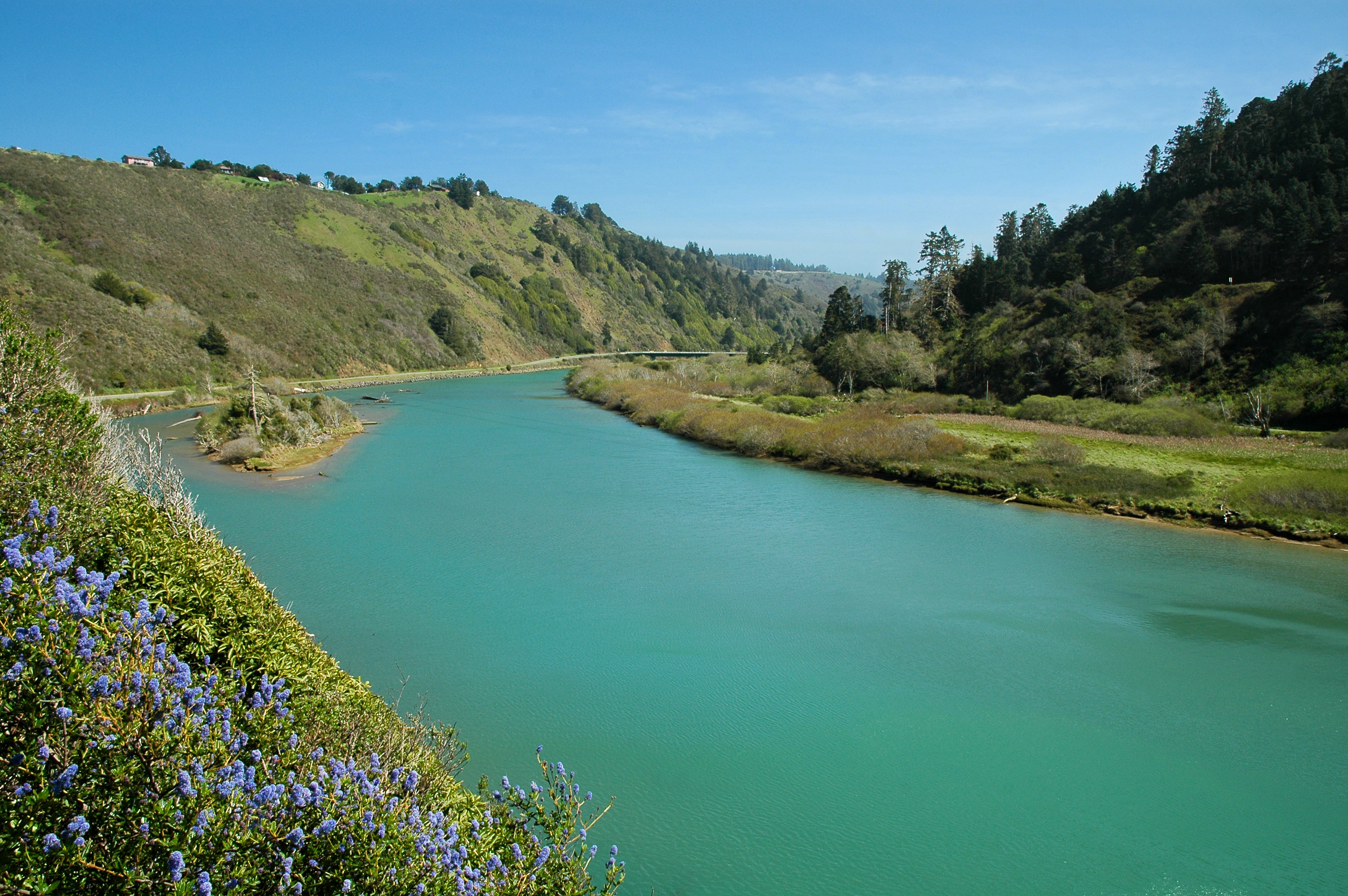 The Navarro River, a few hundred feet from the Pacific Ocean.